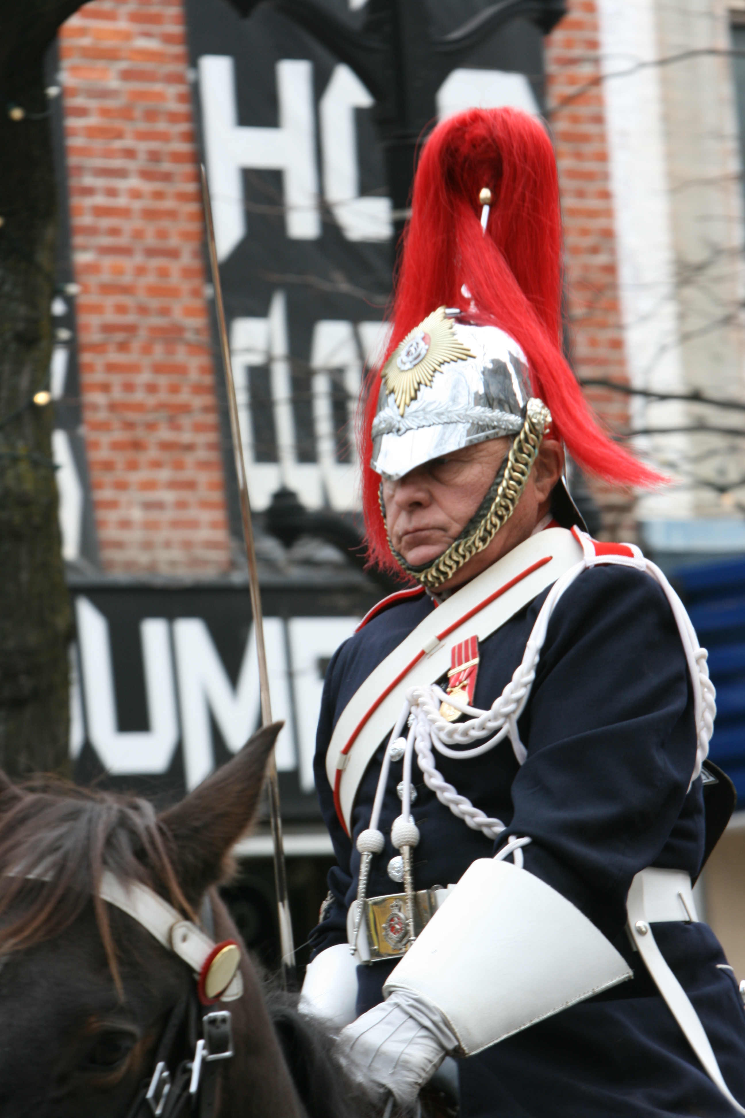 The Governor General's Horse Guard as part of the funeral procession for the Hon. Lincoln Alexander